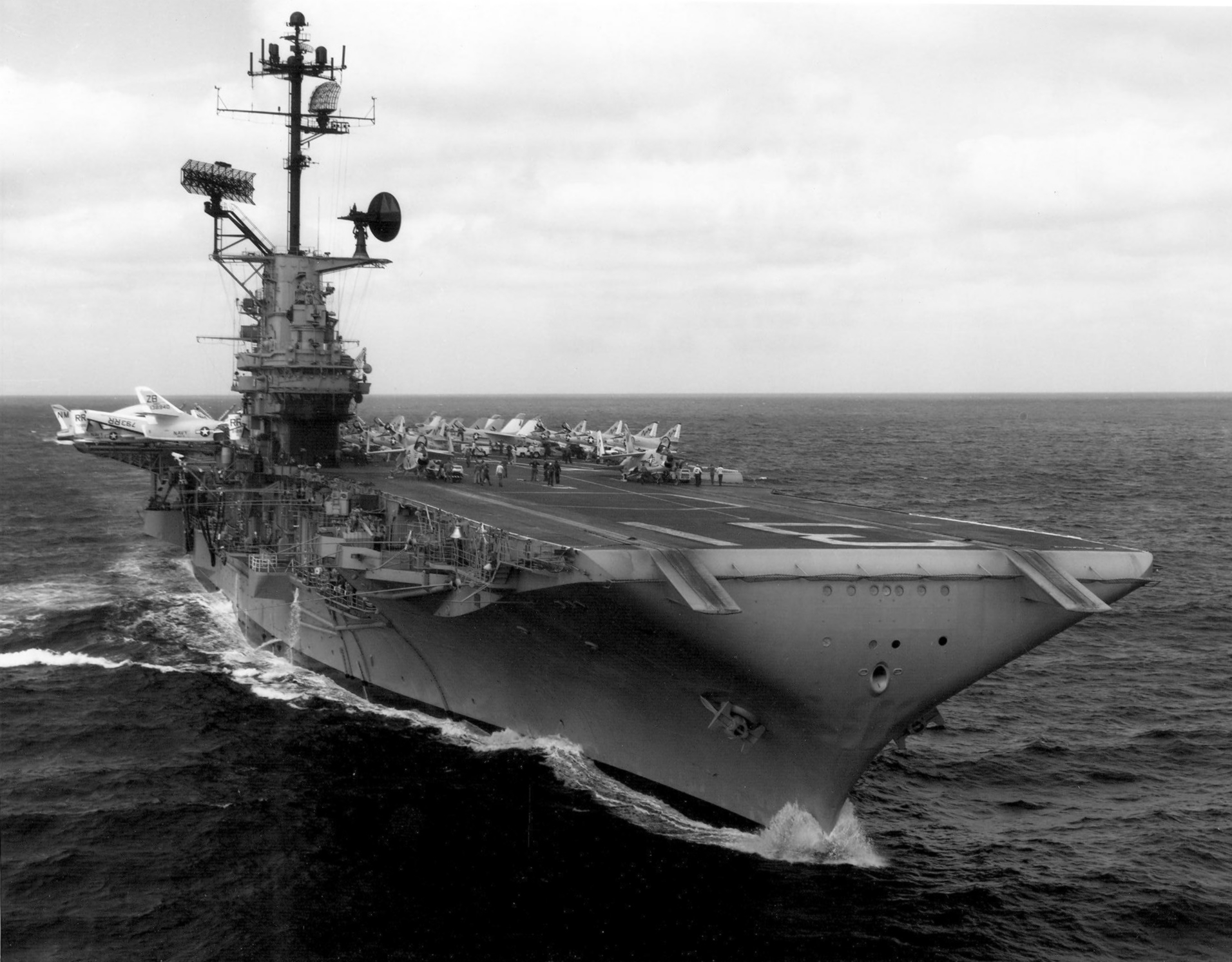 The U.S. Navy aircraft carrier USS Bon Homme Richard (CVA-31) underway in the Gulf of Tonkin off Vietnam, 2 November 1964. The carrier, with Carrier Air Wing 19 (CVW-19) embarked, was deployed to the Western Pacific and Vietnam from 28 January to 21 November 1964.